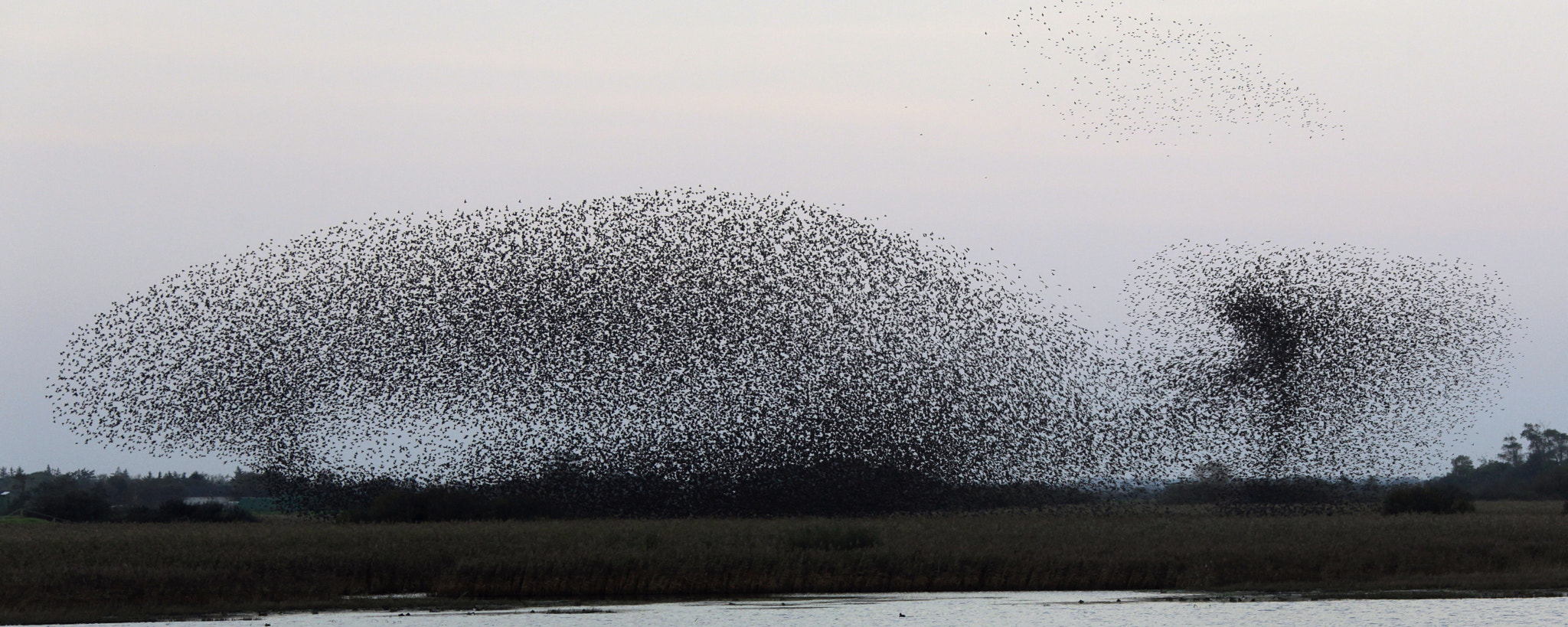 500px provided description: Dance of the starlings [#trees ,#landscape ,#sunset ,#beautiful ,#butterfly ,#squirrel ,#flying ,#whale ,#natural light ,#bird of prey ,#golden hour ,#phenomenon ,#starlings ,#nature pics ,#Bird]